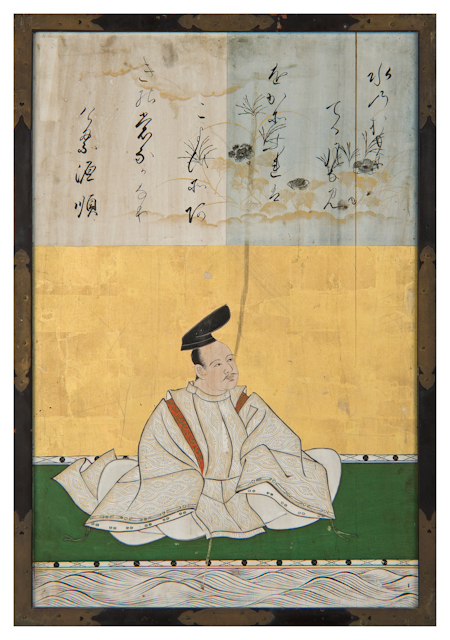 Sanjūrokkasen-gaku (Thirty-six Poetry Immortals framed picture) #31: Minamoto no Shitagō